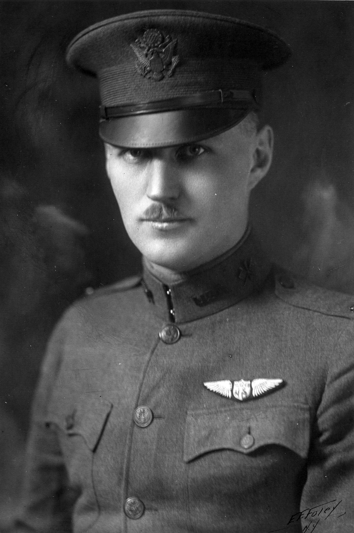 Lt. Harold E. Goettler (U.S. Air Force photo).